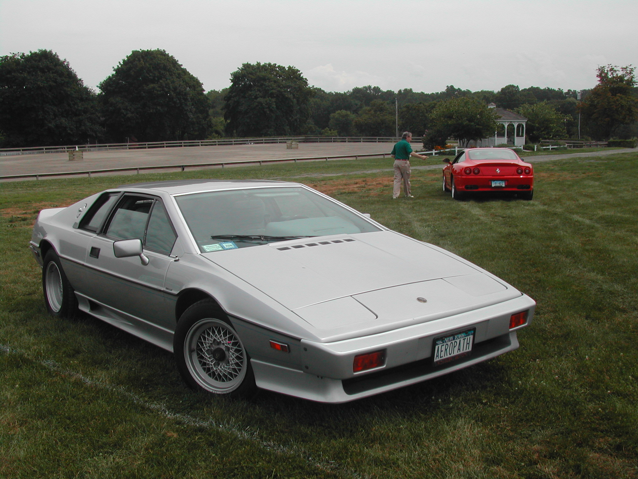 1987 Lotus Turbo Esprit HC at the Bonhams & Butterfields Auction in Darien, Connecticut